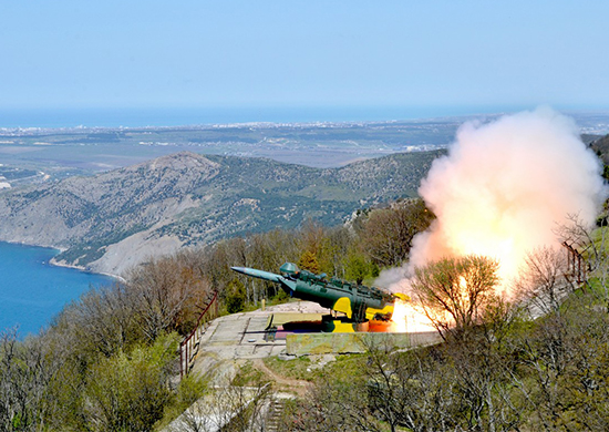 Utyos coastal missile system.